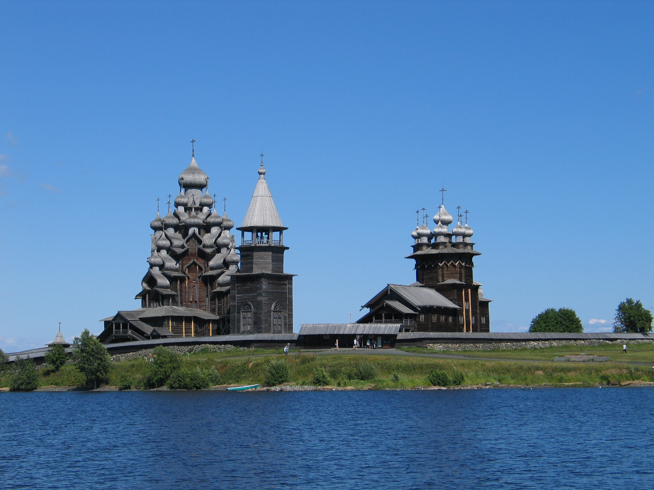 Russia, Karelia, Onego lake. Kizhi Sobours, Kizhi.